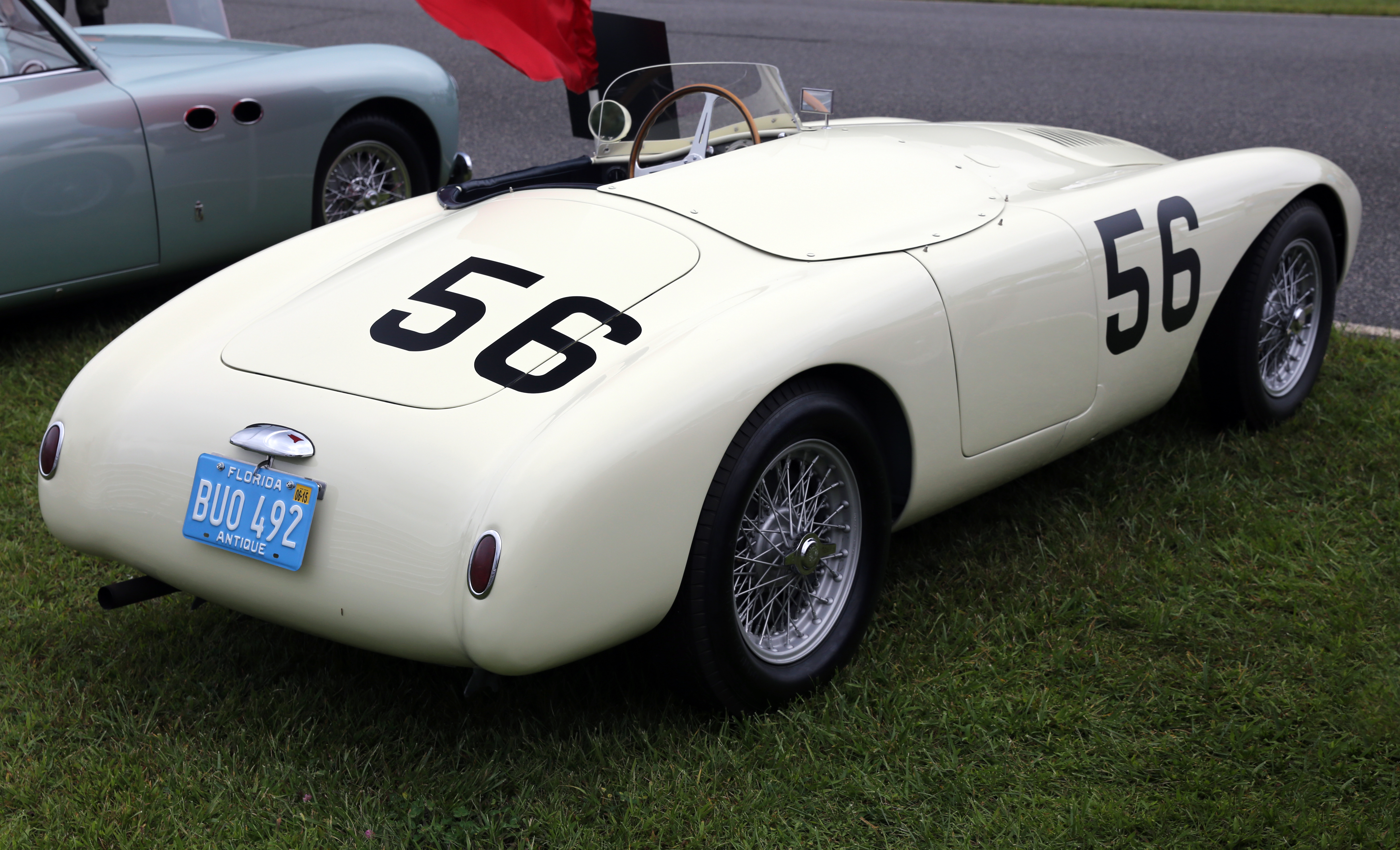 1954 O.S.C.A. MT4 1500 roadster seen at the 2014 Lime Rock Concours d'Élegance. Belongs to the Revs Institute of Naples, FL, was once raced by Stirling Moss who still gets to drive this car every so often. The car was entered by Briggs Cunningham for the 1954 12 Hours of Sebring, where Moss (together with Bill Lloyd) won a surprise victory against the considerably more powerful Lancias and Ferraris.